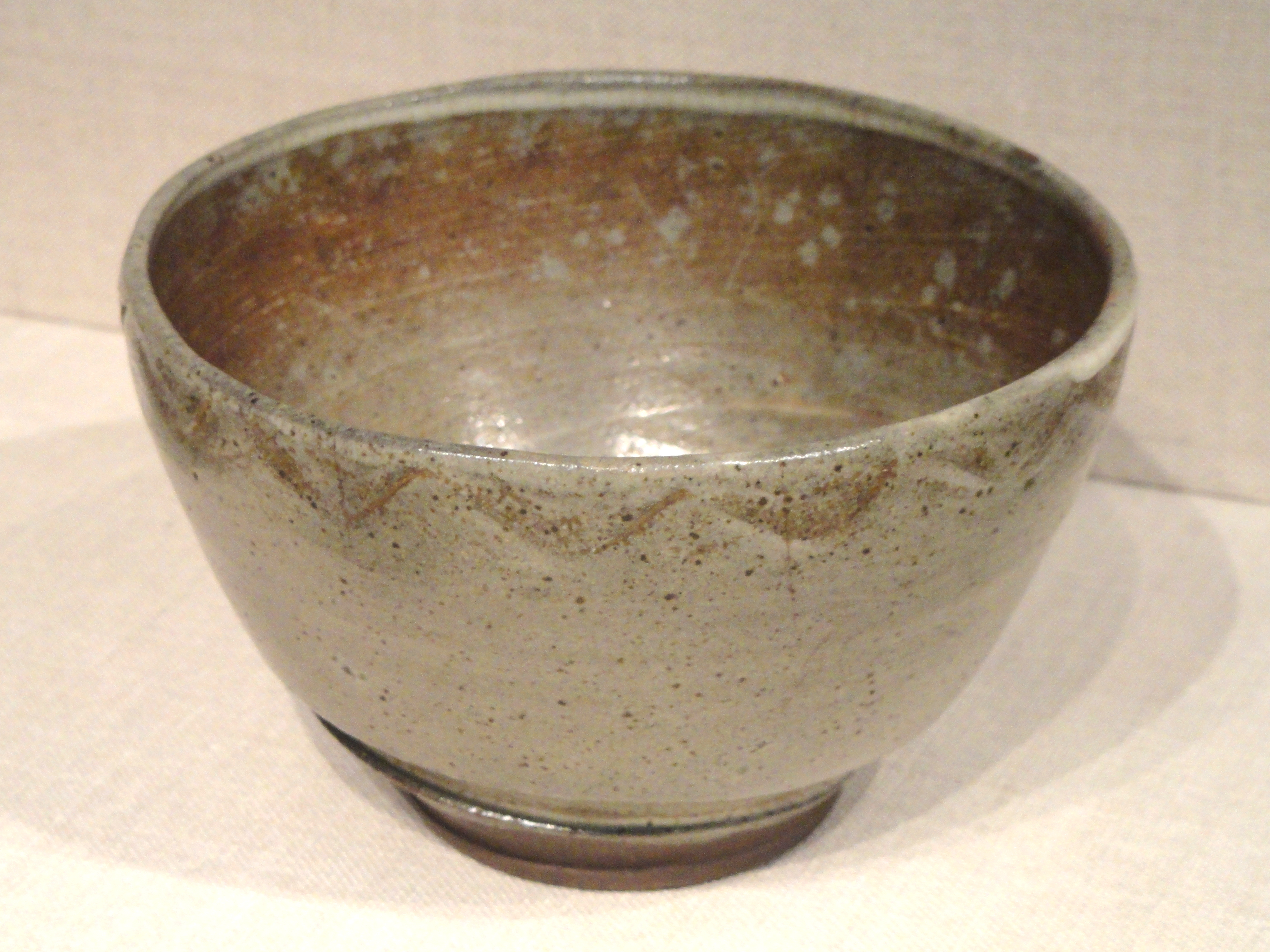 Exhibit in the Freer Gallery of Art, Washington, DC, USA. This artwork is old enough so that it is in the public domain.